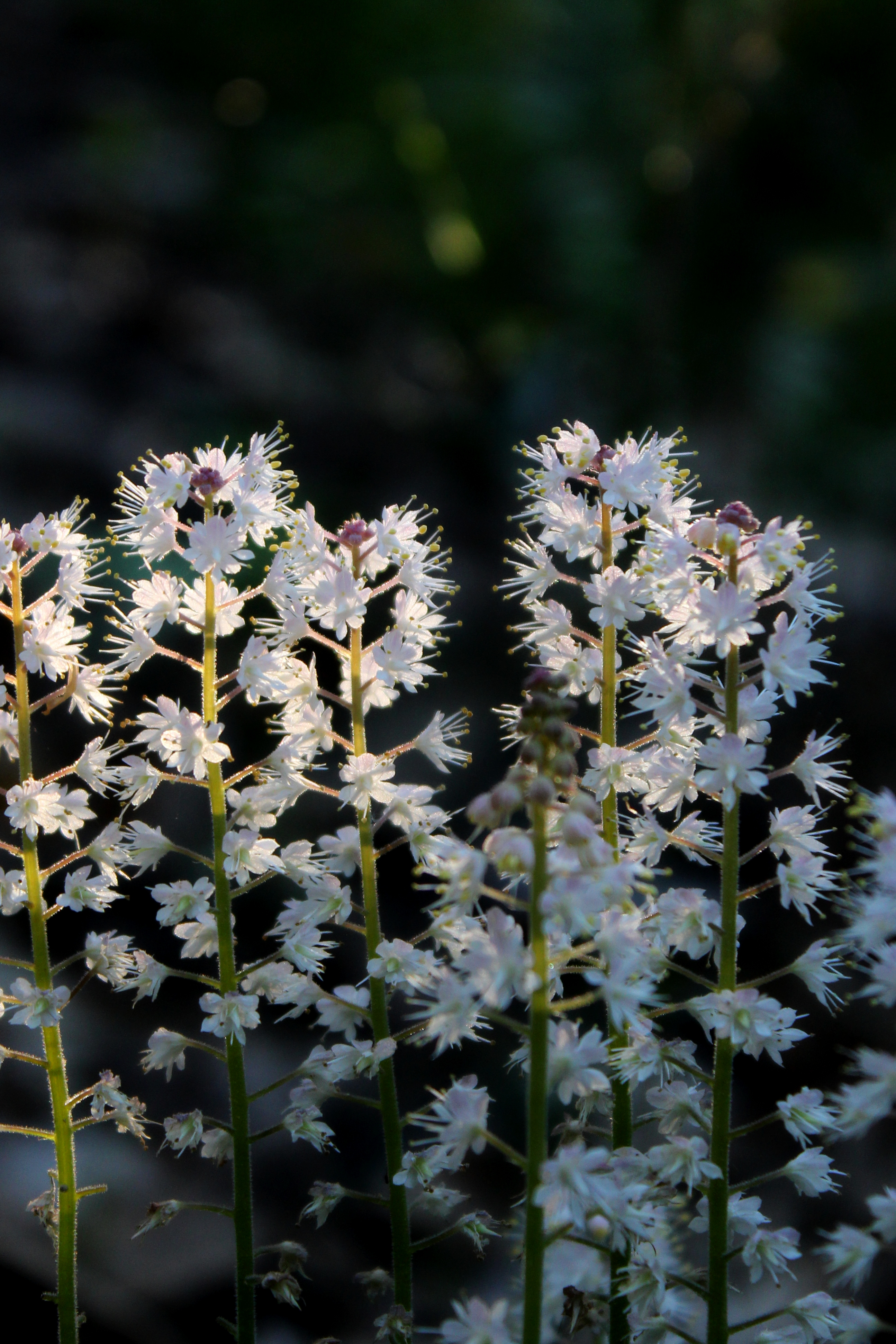 Heartleaved foamflower in bloom, mid-April, Uwharrie National Forest, North Carolina, US